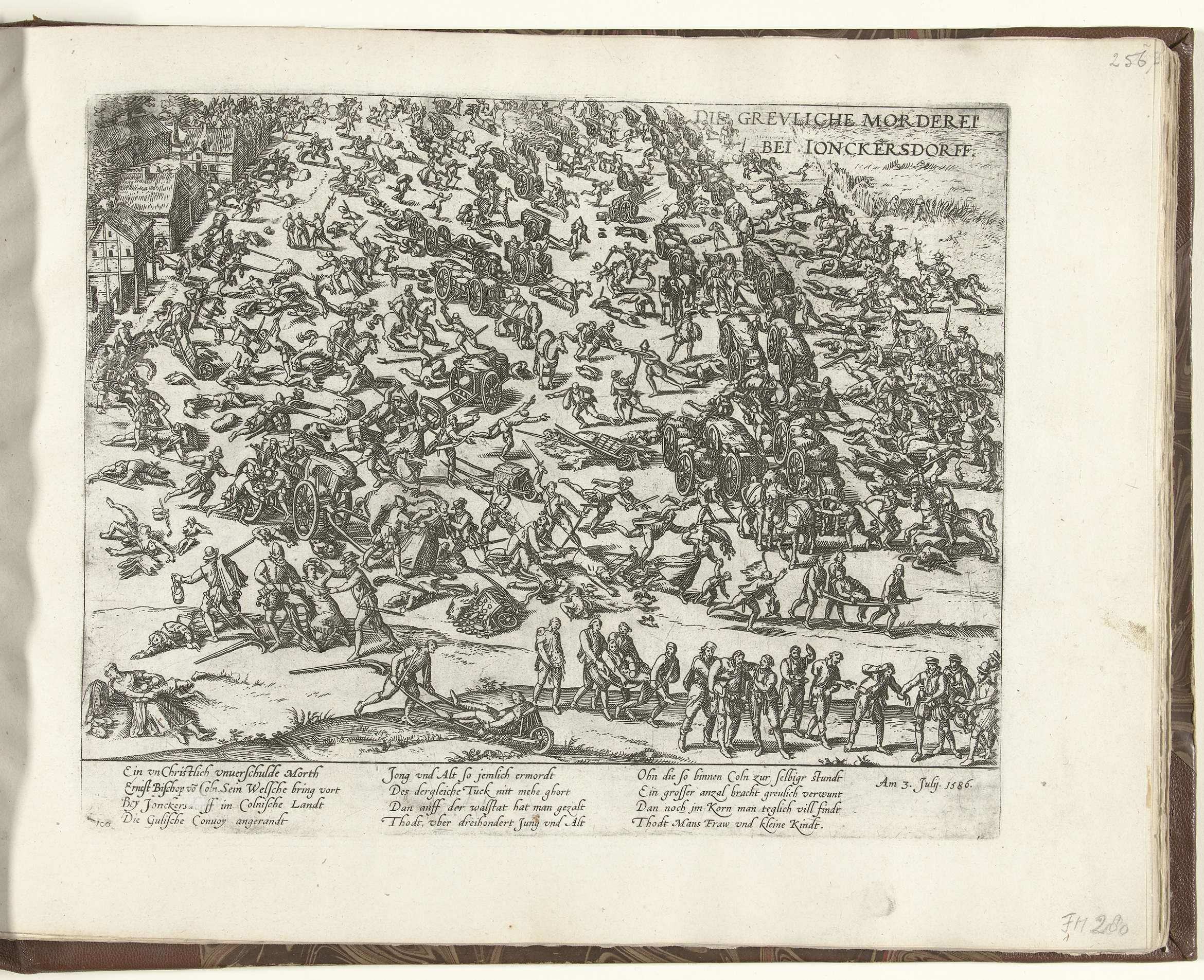 Frans Hogenberg, "Die Greuliche Morderei bei Jonckersdorff" (1586-1588): a broadsheet engraving of the Junkersdorf Massacre (1586)